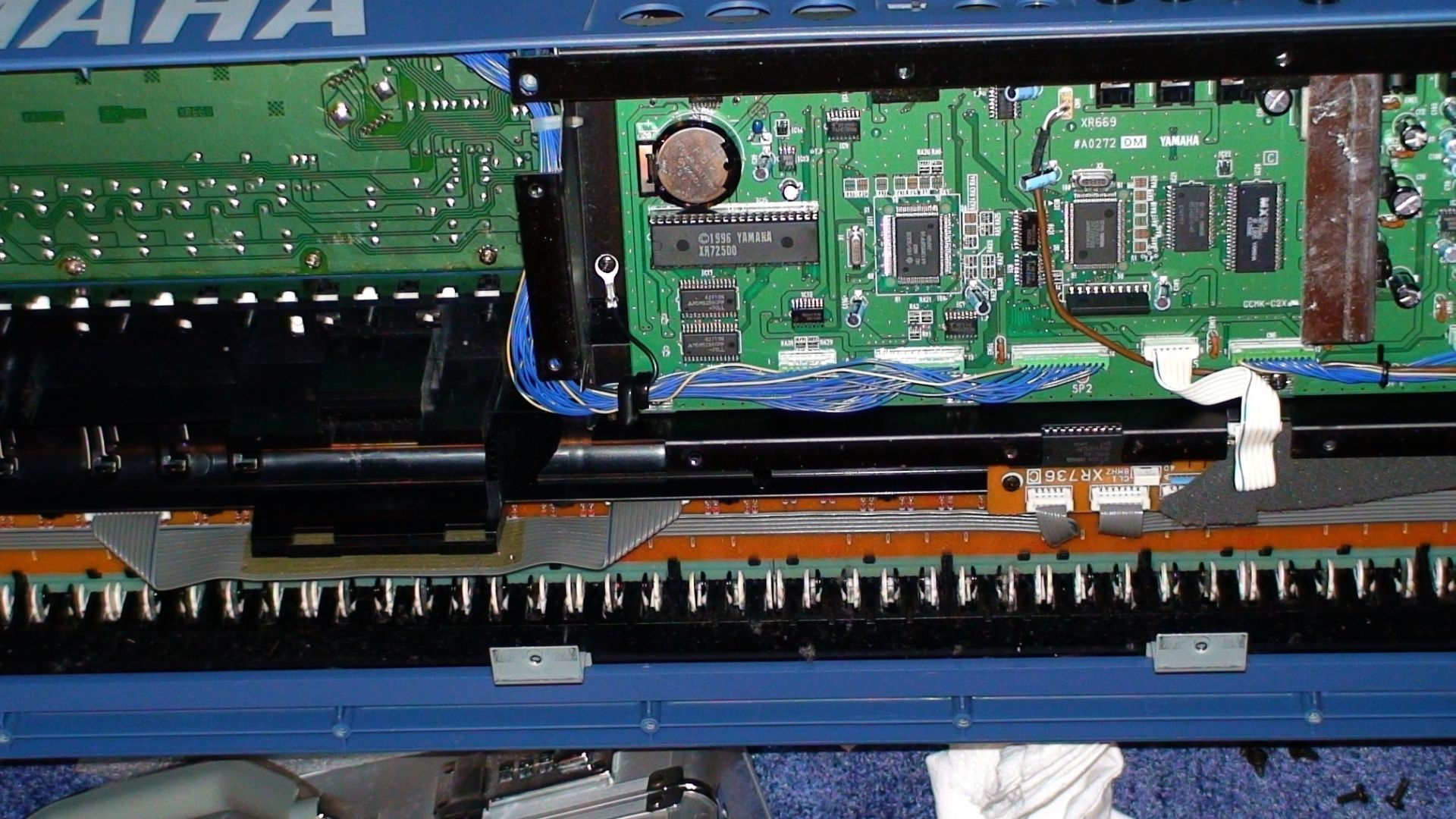 inside view of a yamaha cs1x control synthesizer from 1996